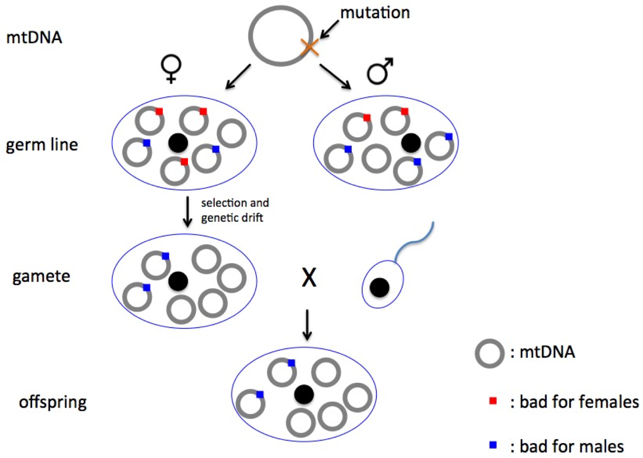 a picture depicting mother's curse